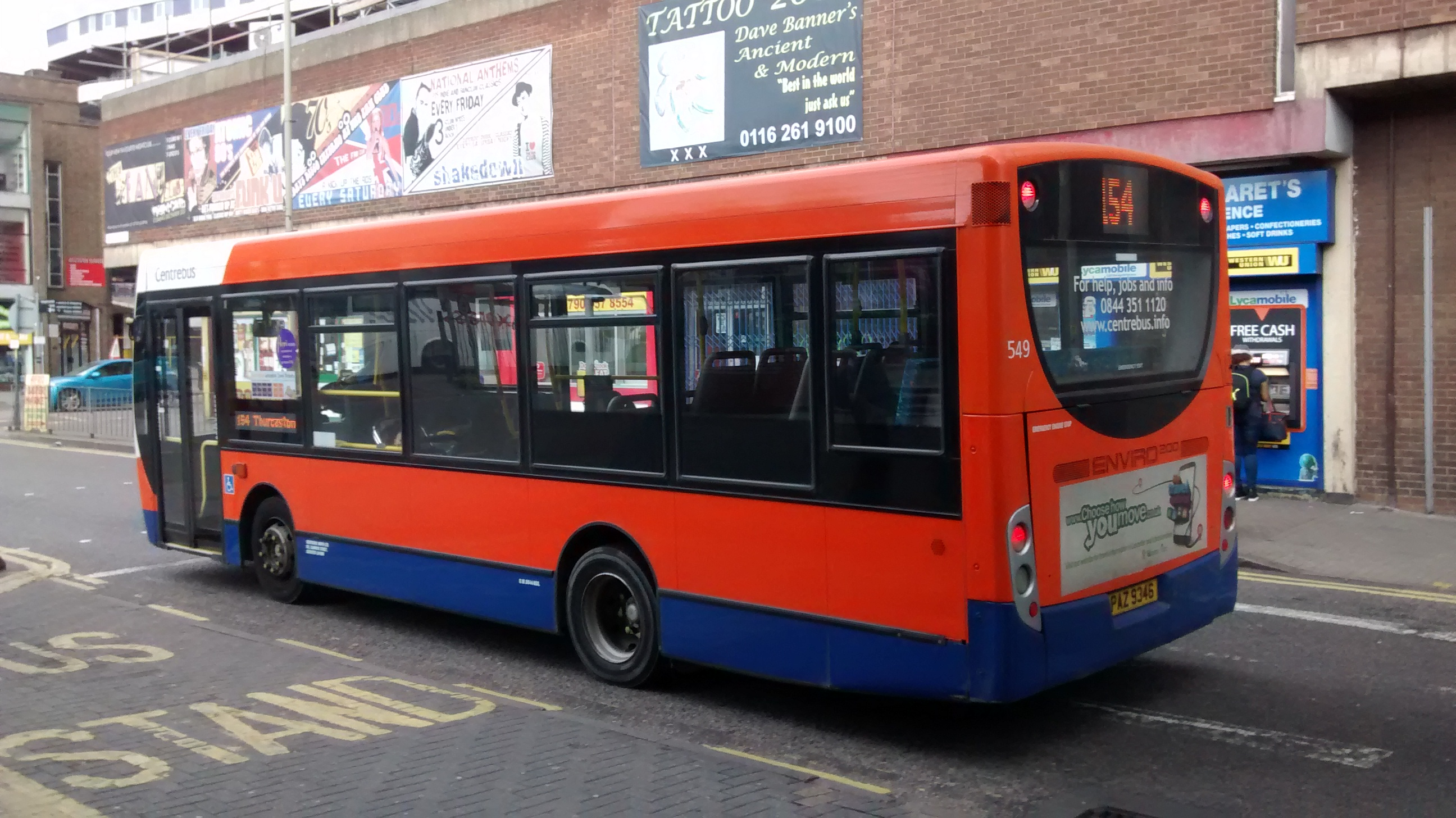 A Centrebus bus on route 154 in Leicester